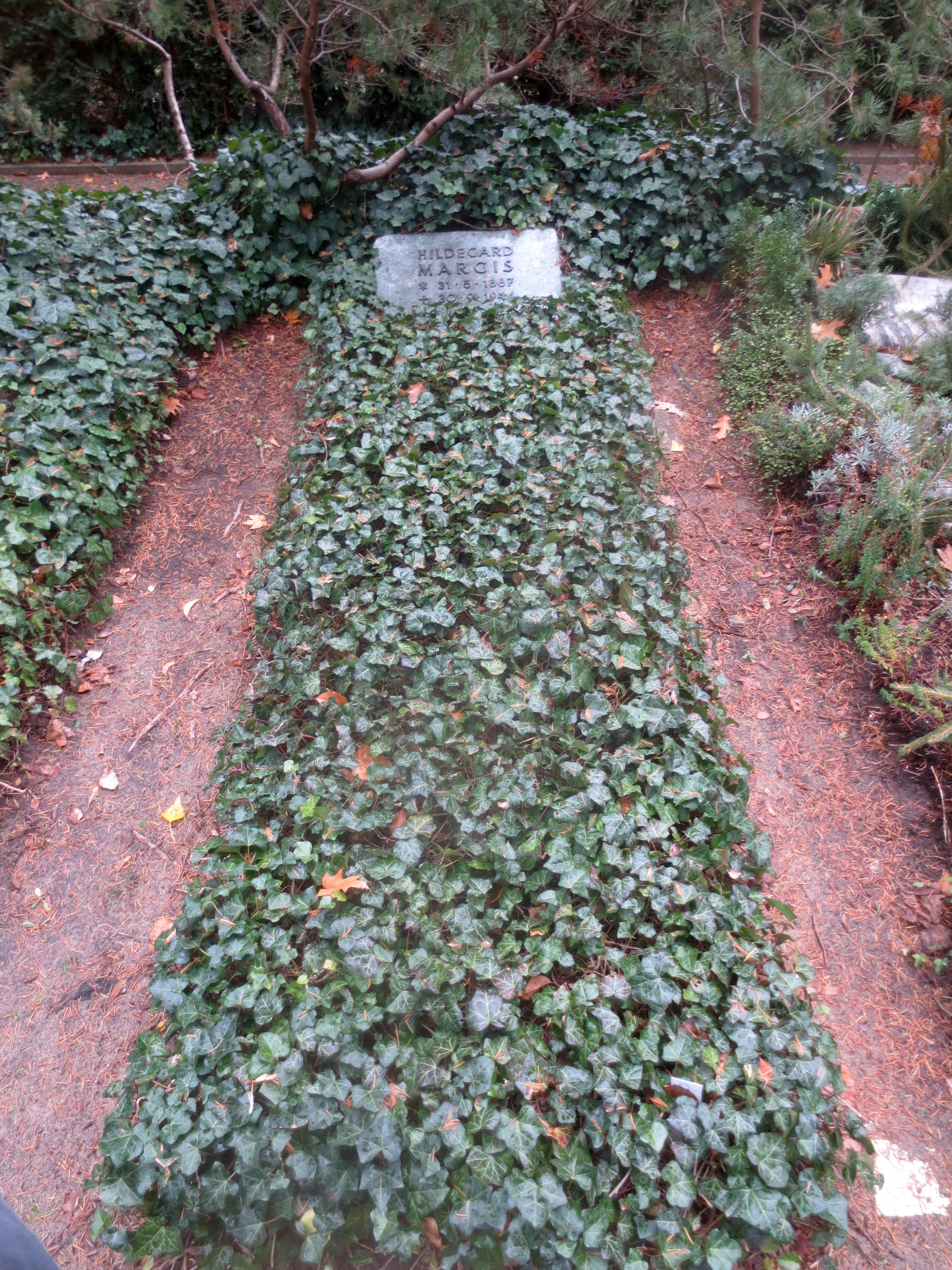 Grave of the writer and campaigner for women's rights Hildegard Margis on the Friedhof Heerstraße cemetery in Berlin-Westend (grave position: 6-Cb-34). Margis was murdered by the Nazis.